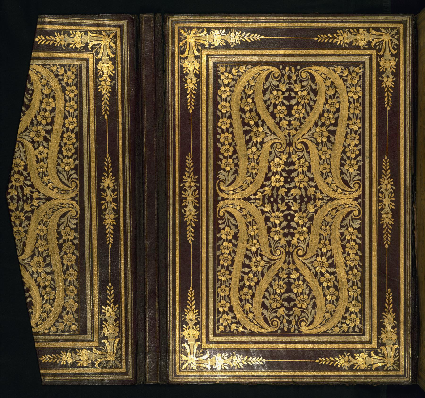 This album of painting and calligraphy, Walters manuscript W.671, was compiled in the late 13th century AH/AD 19th or early 14th century AH/AD 20th, most likely in Turkey. The signed pieces of calligraphy represent 9 different Persian calligraphers, including Sultan 'Ali al-Mashhadi, Sultan Murad al-Husayni, Muhammad Husayn, Ni'mat Allah al-Mashhadi, Muhammad Asghar, Shah Muhammad al-Mashhadi, and Muhammad Zaman. There are 31 paintings, the majority of which are executed in the Safavid style but are attributable to the late 13th century AH/AD 19th or early 14th century AH/AD 20th. They were most likely made in Turkey. The borders are polychrome and marbled gold-sprinkled paper. The brown leather binding decorated with landscape scenes and brushed with gold is contemporary with the compiling of the album.